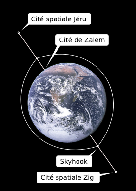 Diagram of earth in gnumm last order univers